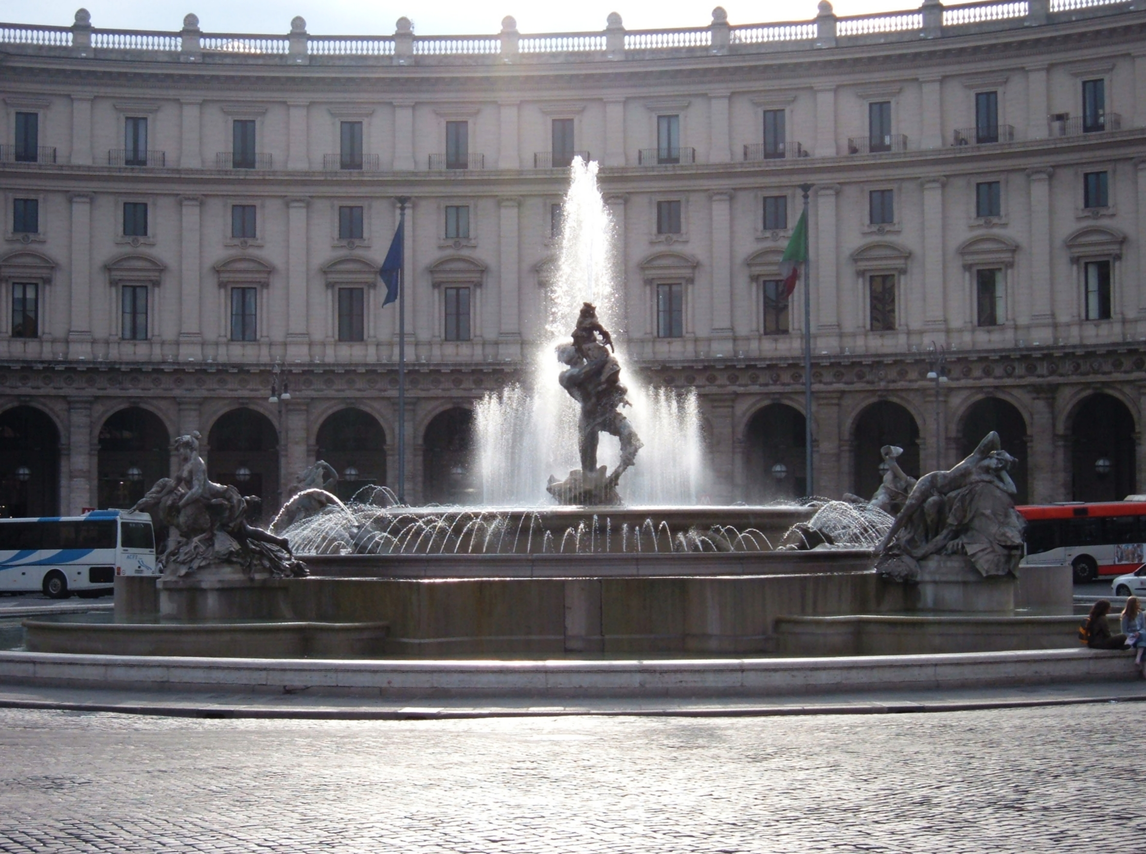 Rome Piazza Republica, April 2005.